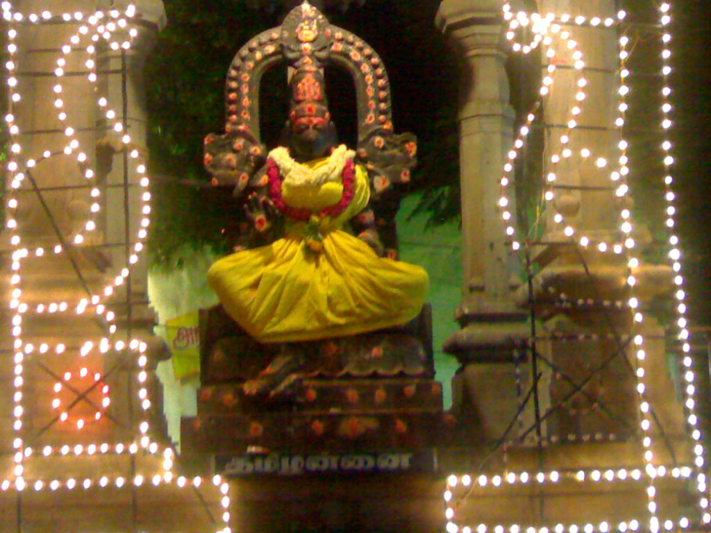 A Hindu-style idol representing the W:Tamil language as a goddess. Photographed at the entrance of Tamukkam Square in Madurai.